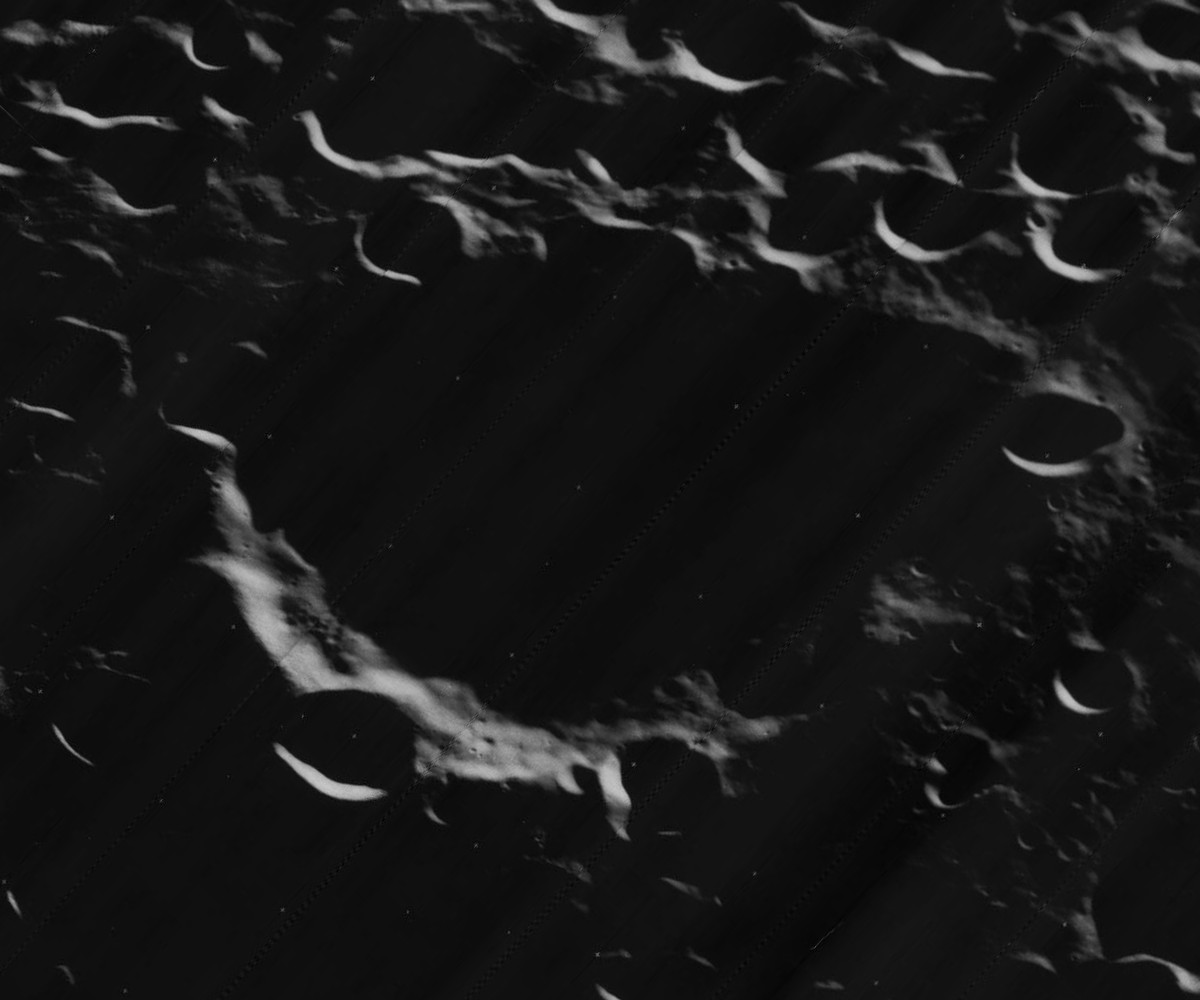 Oblique view of Kolhörster crater, on the far side of the moon, while at the lunar terminator.